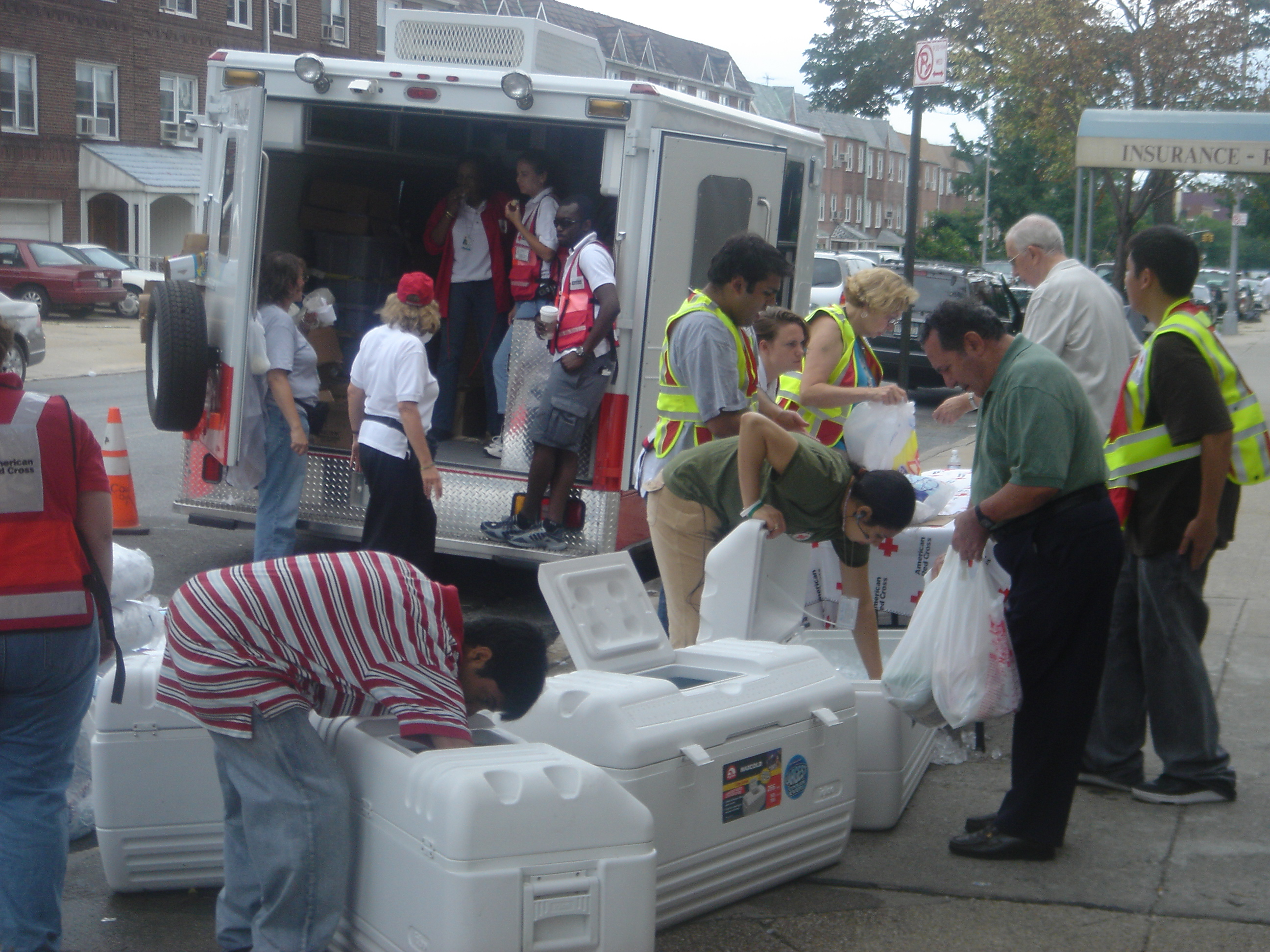 I took this photo in Queens and hereby releae it into the public domain.